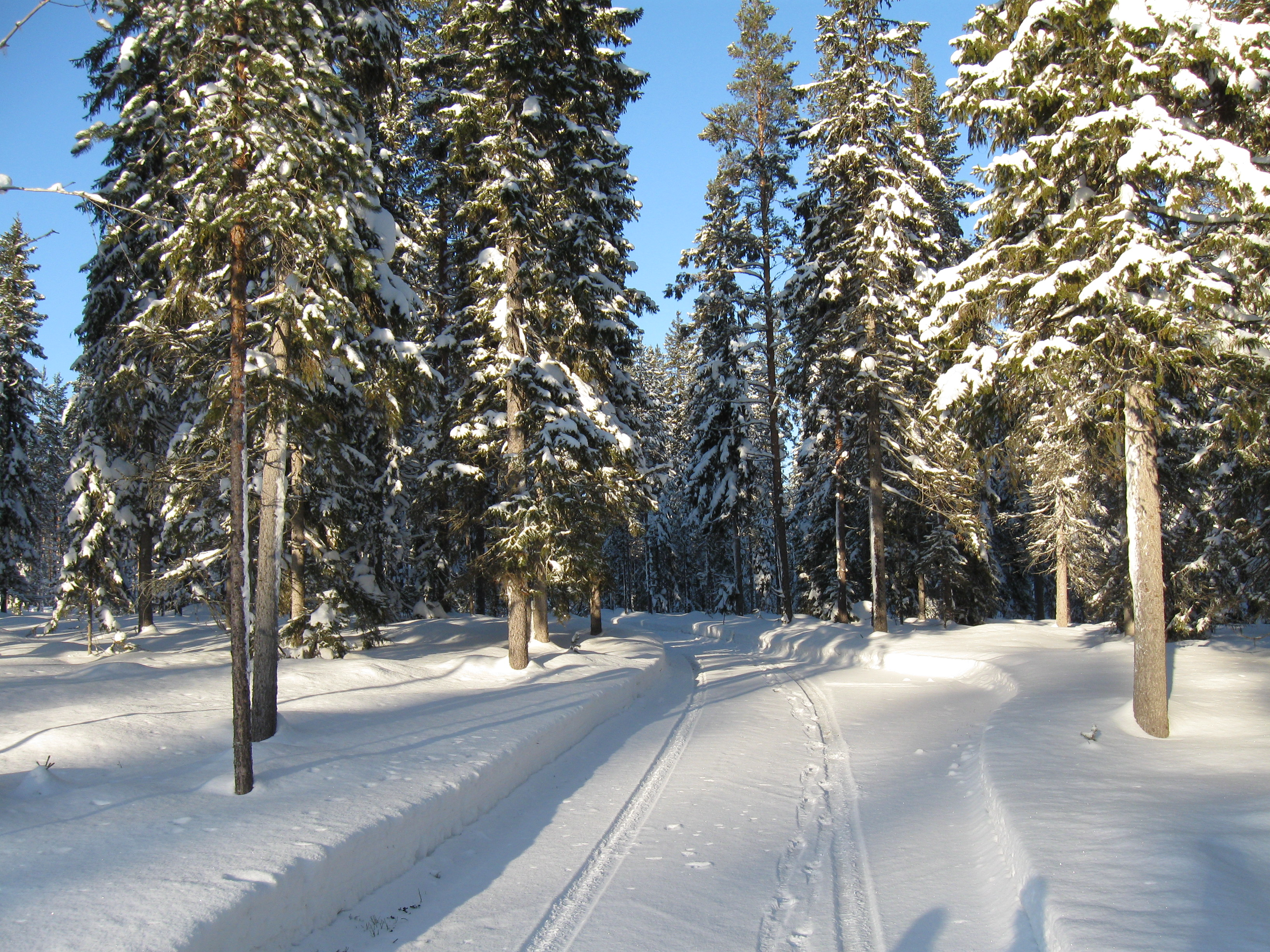 A countryside road in Finland kept open with a snowblower. A By-pass area seen on the right, too.